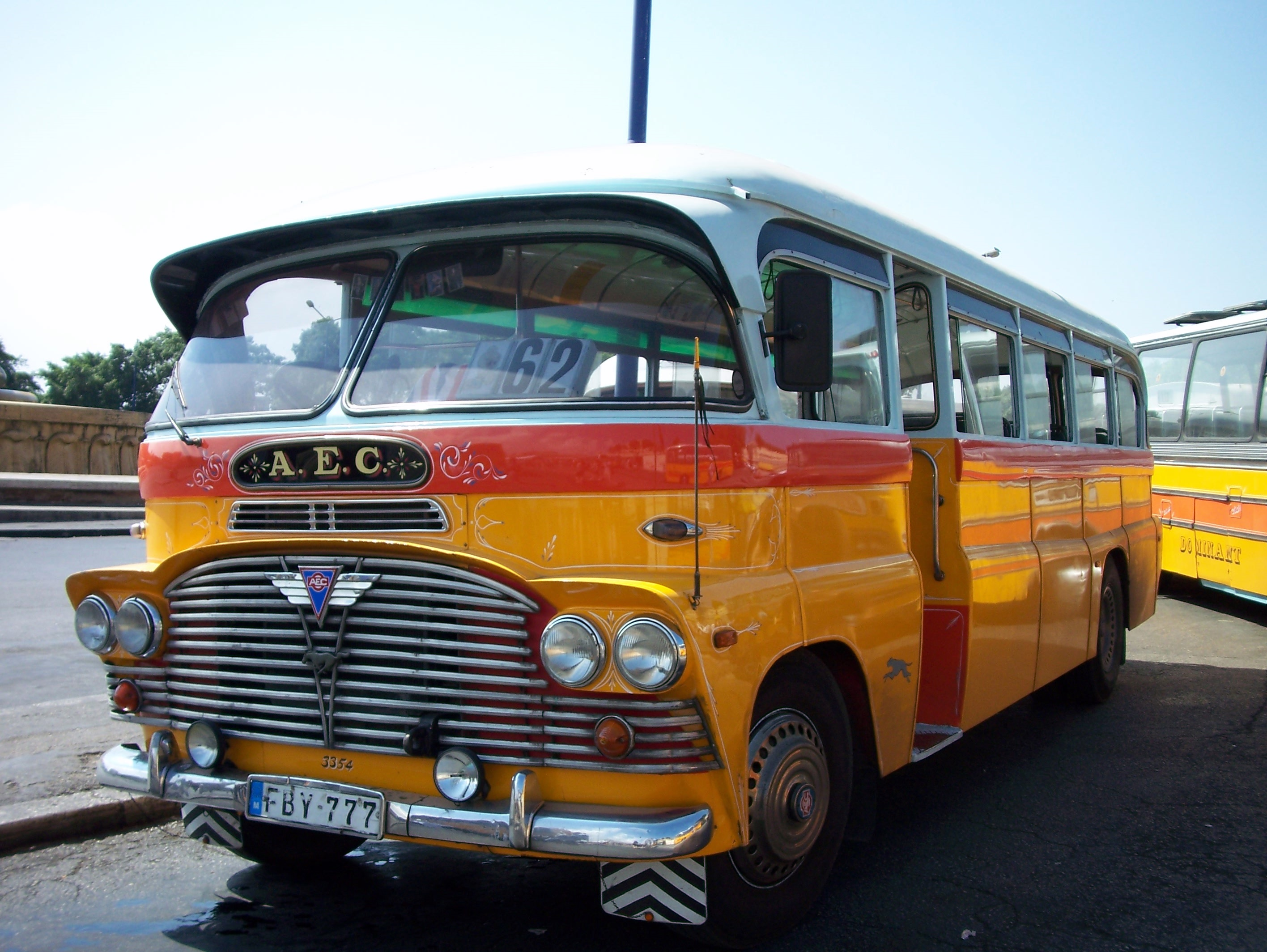 A yellow bus in Valetta, Malta